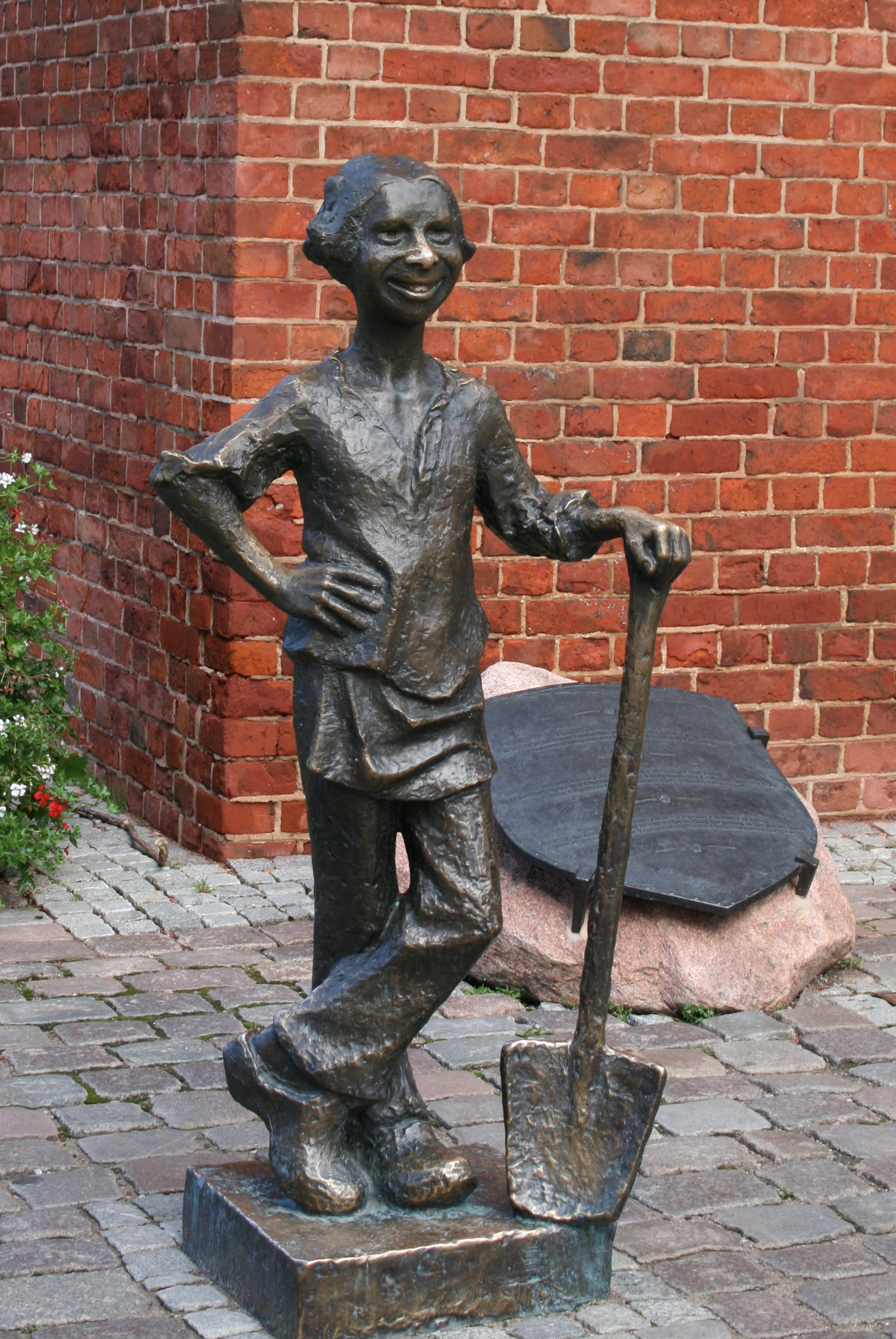 Monument at the Market Gate. Original text from the commemorative plaque: „Young Baker’s Journeyman – a legendary defender of Elbląg. In 1521, he used his shovel to cut a rope holding the grating in the Market Gate, and thus prevented the Teutonic Knights army from conquering the town."